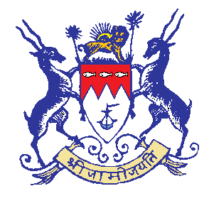 Coat of arms of Navanagar State Numismatics This work is in the public domain in India because its term of copyright has expired. The Indian Copyright Act applies in India, to works first published in India. According to The Indian Copyright Act, 1957 (Chapter V Section 25), Anonymous works, photographs, cinematographic works, sound recordings, government works, and works of corporate authorship or of international organizations enter the public domain 60 years after the date on which they were first published, counted from the beginning of the following calendar year (ie. as of 2016, works published prior to 1 January 1956 are considered public domain). Posthumous works (other than those above) enter the public domain after 60 years from publication date. Any other kind of work enters the public domain 60 years after the author's death. Text of laws, judicial opinions, and other government reports are free from copyright. Photographs created before 1958 are in the public domain 50 years after creation, as per the Copyright Act 1911. This file may not be in the public domain outside India. The creator and year of publication are essential information and must be provided. See Wikipedia:Public domain and Wikipedia:Copyrights for more details. This image shows a flag, a coat of arms, a seal or some other official insignia. The use of such symbols is restricted in many countries. These restrictions are independent of the copyright status.